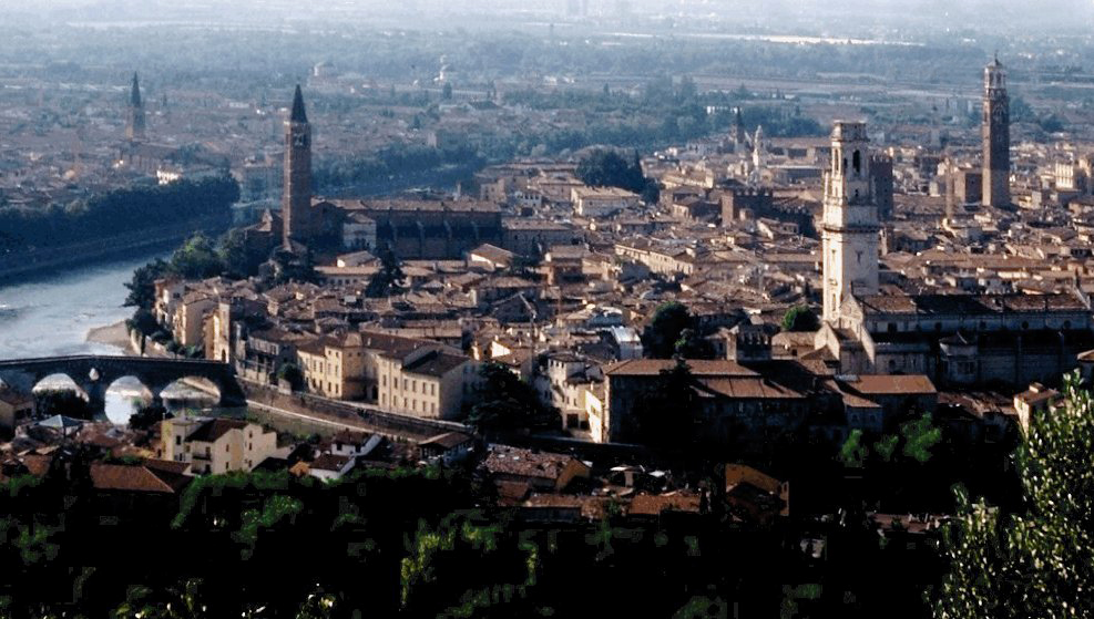 Old Town of Verona seen from the hill.